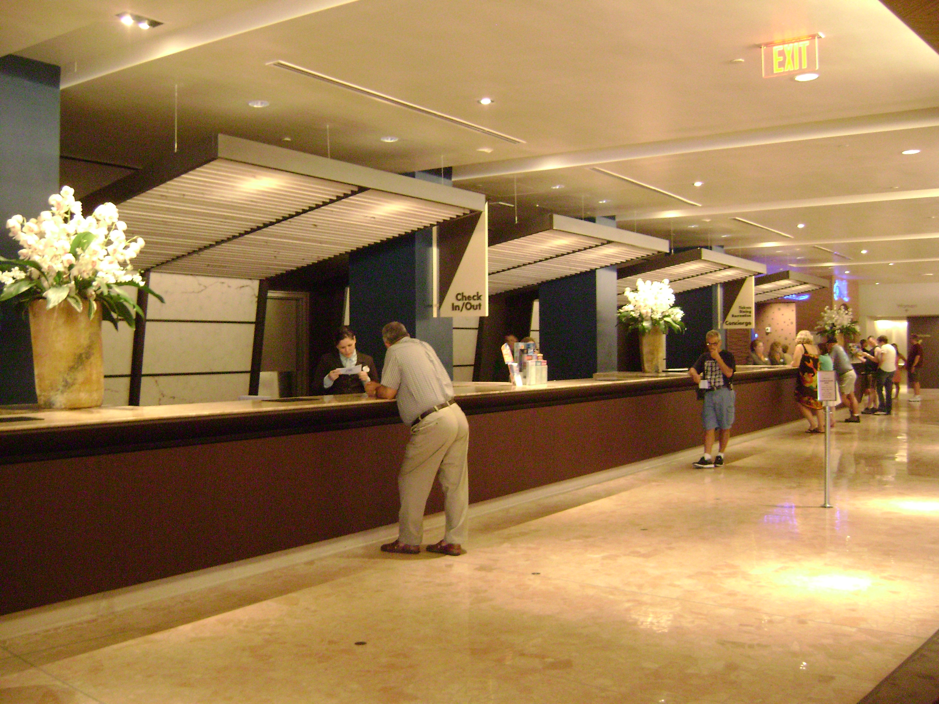 Disney's Contemporary Resort Lobby Area.